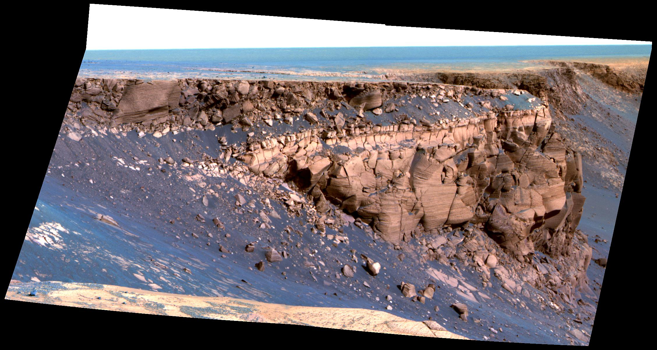 This false-color image captured by NASA's Mars Exploration Rover Opportunity shows Cape St. Vincent, one of the many promontories that jut out from the walls of Victoria Crater. The material at the top of the promontory consists of loose, jumbled rock, then a bit further down into the crater, abruptly transitions to solid bedrock. This transition point is marked by a bright band of rock, visible around the entire crater. Scientists say this bright band represents what used to be the surface of Mars just before an impact formed Victoria Crater. Opportunity is scheduled to descend into the crater in July 2007, where it will examine the band carefully at an accessible location with a gentle slope. These investigations might help determine if the band's brighter appearance is the result of ancient interactions with the Martian atmosphere. This image was taken by Opportunity's panoramic camera on sol 1,167 (May 6, 2007). It is presented in false color to accentuate differences in surface materials.